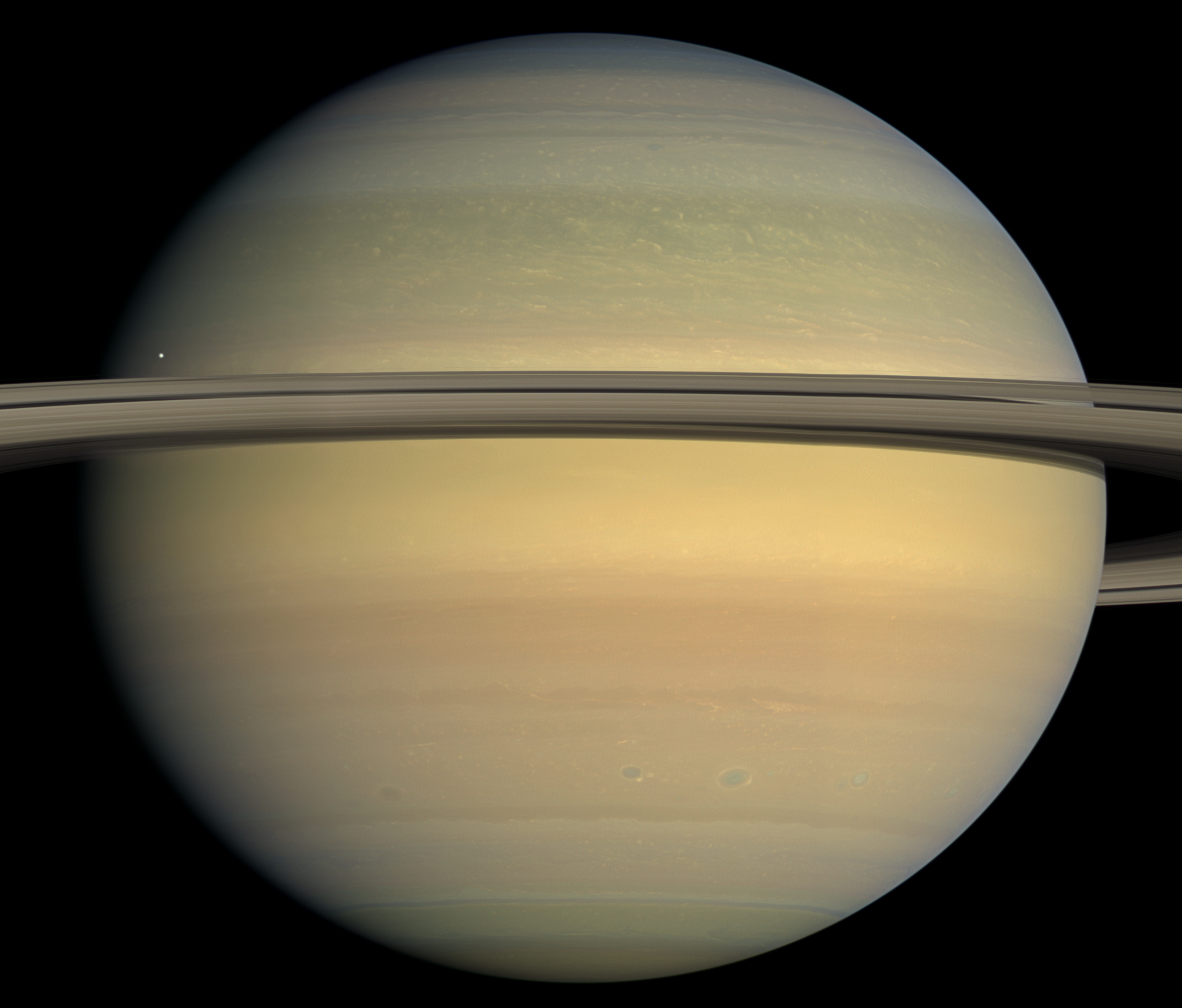 This captivating natural color view of the planet Saturn was created from images collected shortly after Cassini began its extended Equinox Mission in July 2008.